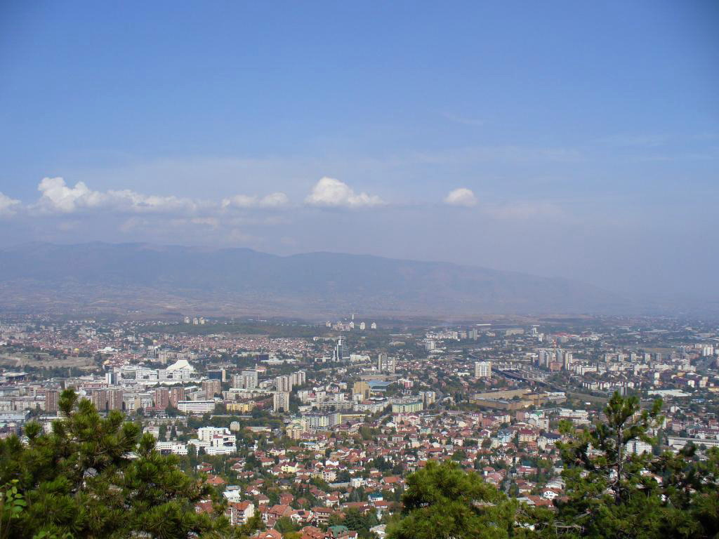 Panorama photo of Skopje